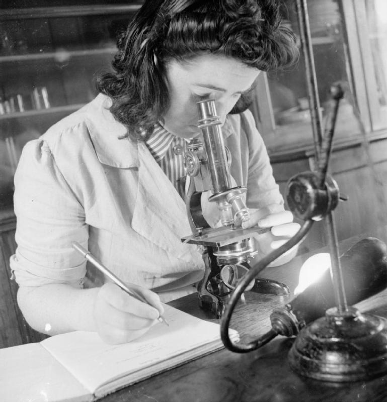 Schoolgirl Into Nurse- Medical Training in Britain, 1942 As part of her physiology class, 18 year old Anne MacDermott examines the nerve centre of a frog under a microscope.